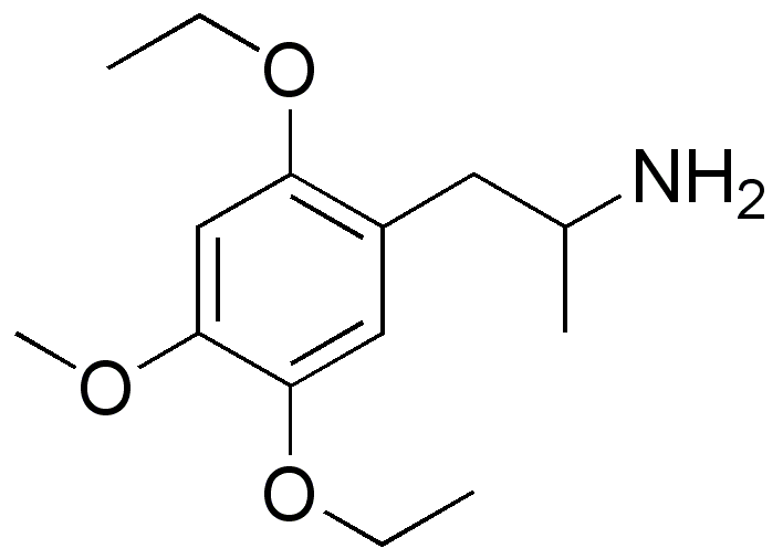 Chemical structure of EME